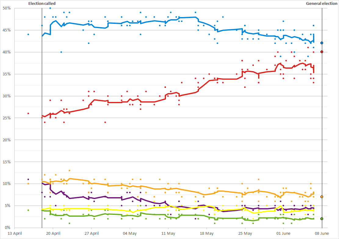 Graph of polling information for the 2017 UK general election. The time period is from the calling of the election up to the election date.